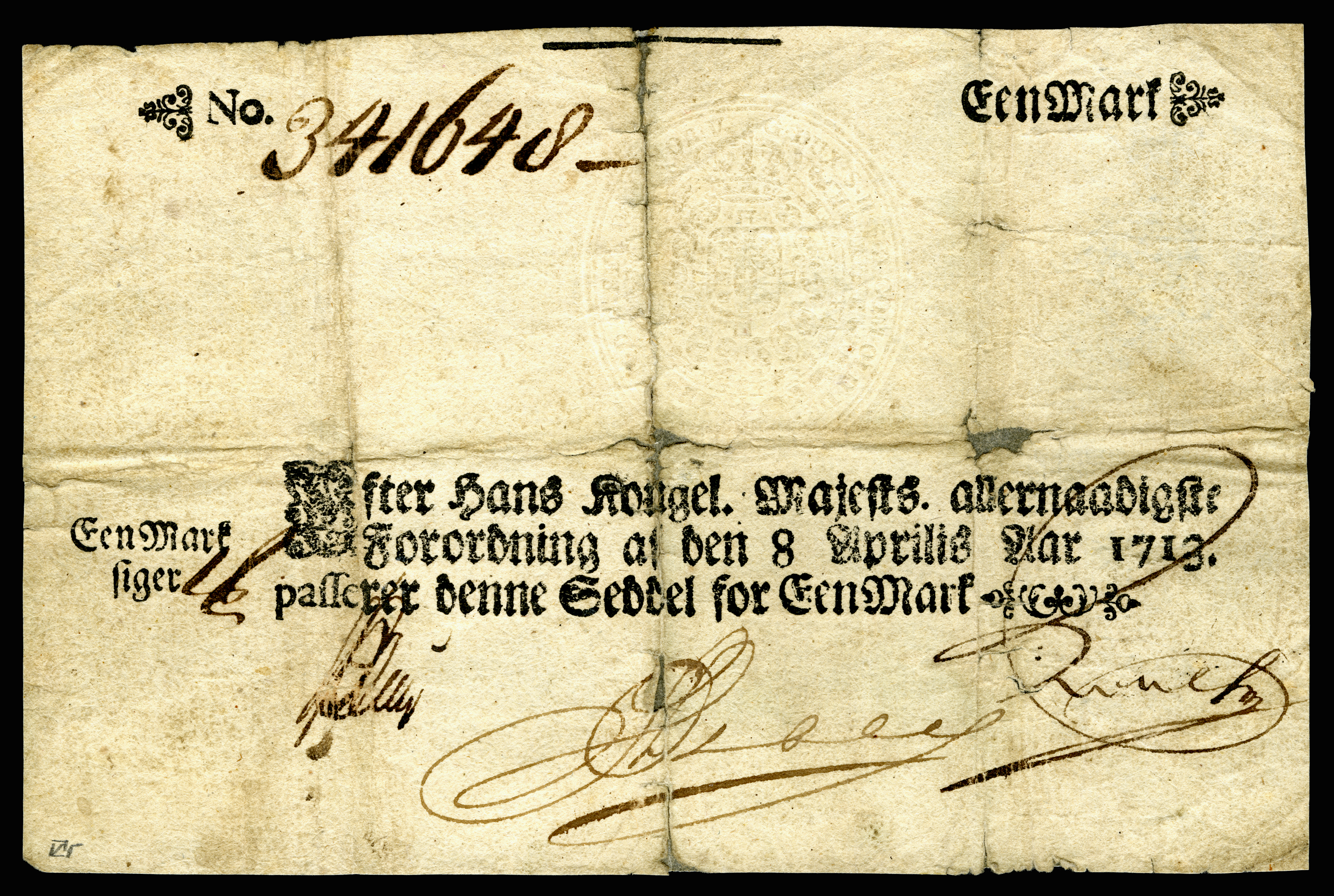 One Danish Mark printed 1713 (the first year of issue for paper currency in Denmark). Under decree dated 8 April 1713 with three authorizing signatures. (Blank reverse with two grey patches to support wear along the folds).